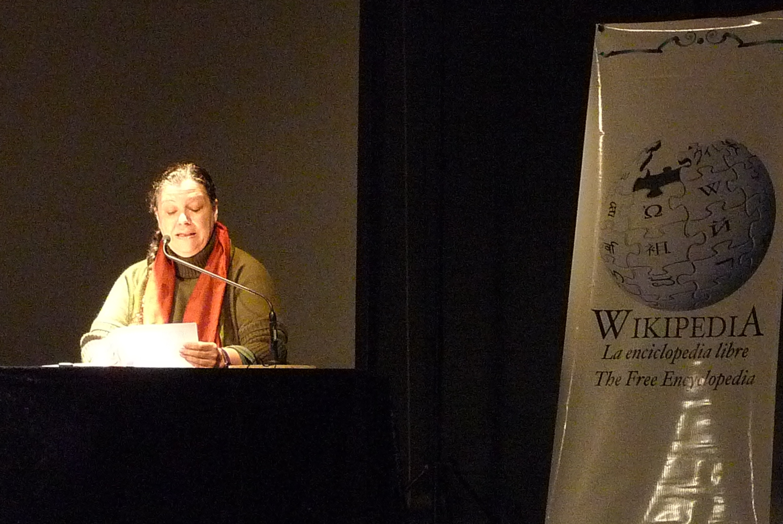 Diana Maffia at WikiGenero (Buenos Aires, Argentinia)